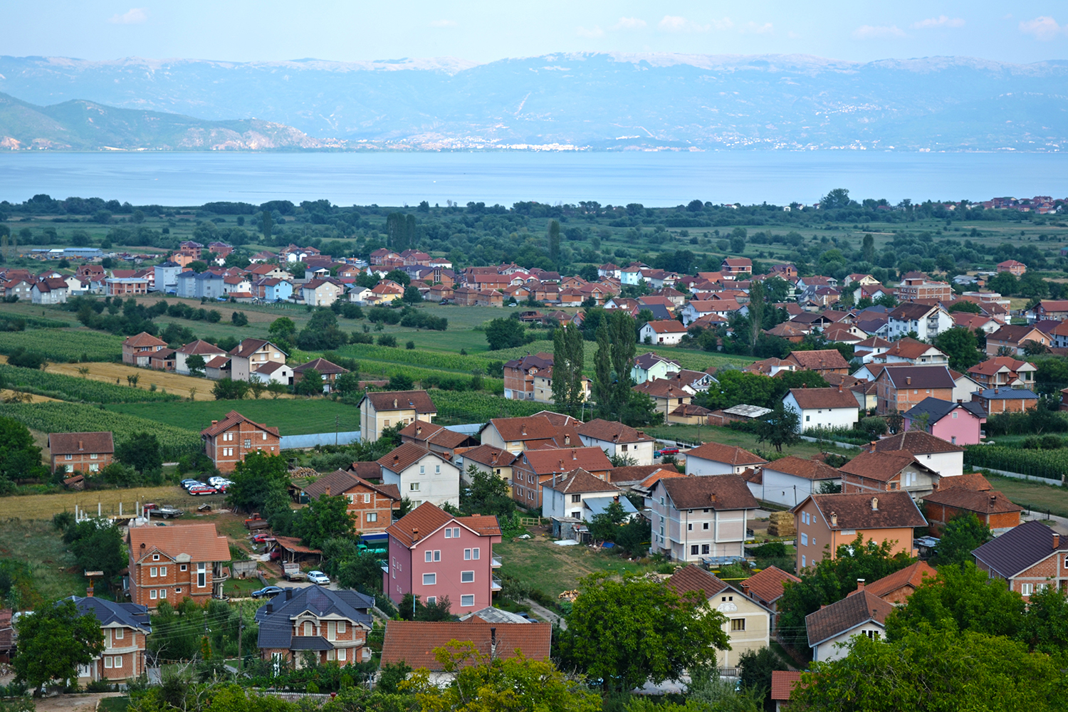 Village of Radolišta, in background Lake Ohrid, and Galičica.